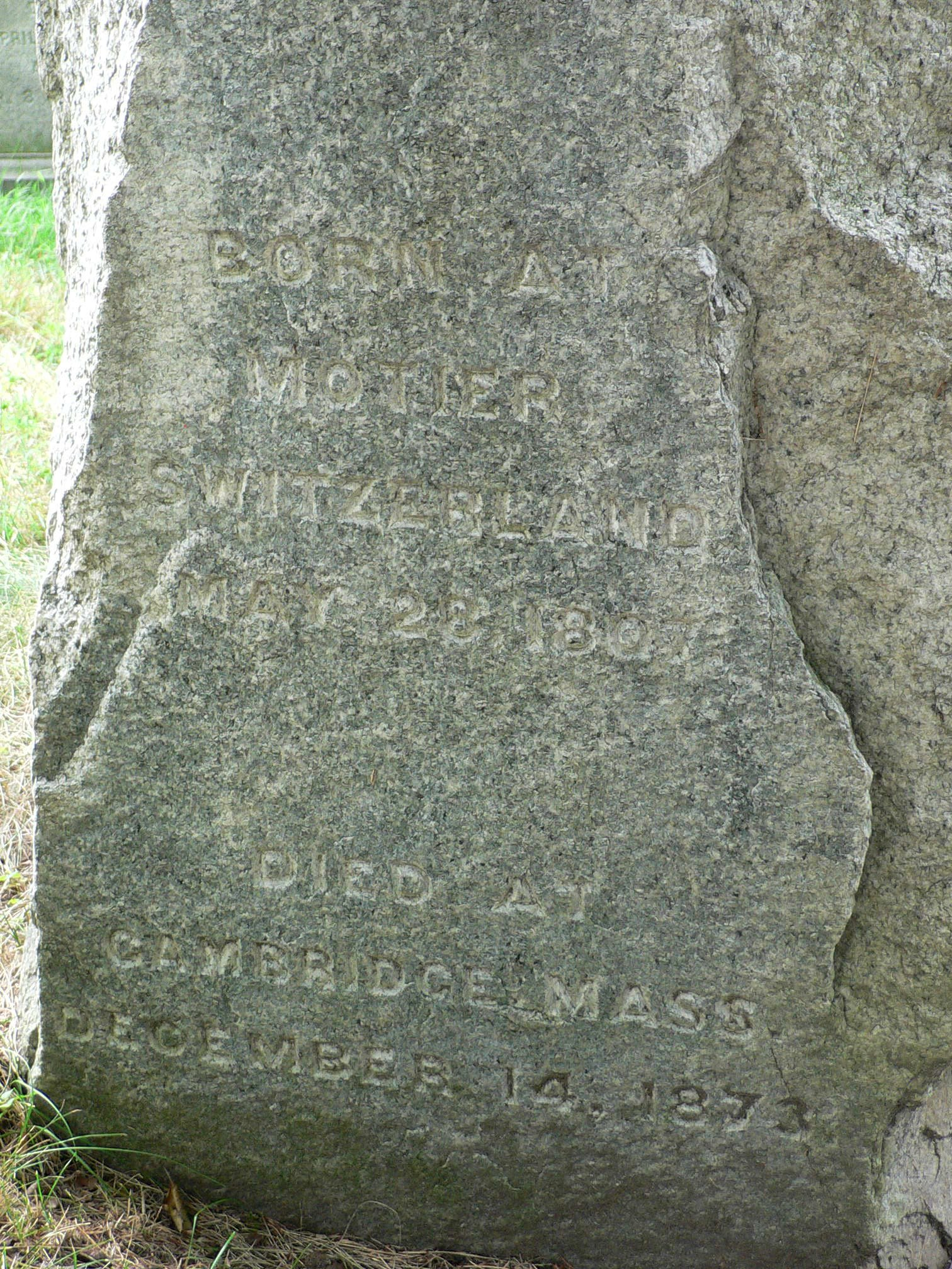 Grave of Louis Agassiz, side view